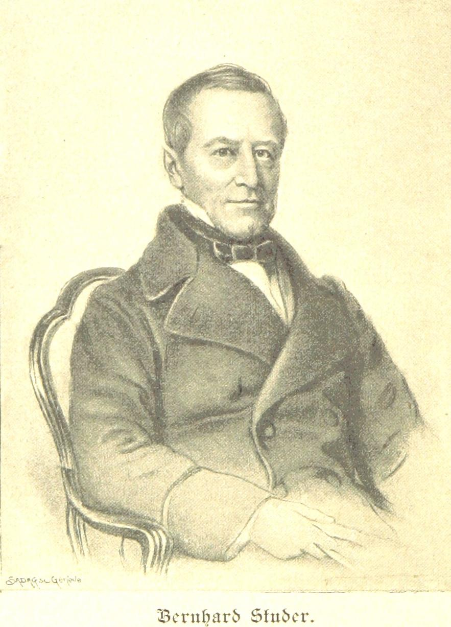 Bernhard Studer Image taken from: Title: "Die Schweiz im neunzehnten Jahrhundert. Herausgegeben von schweizerischen Schriftstellern unter Leitung von P. Seippel" Author: SEIPPEL, Paul. Shelfmark: "British Library HMNTS 9305.h.2." Volume: 02 Page: 238 Place of Publishing: Lausanne Date of Publishing: 1899 Issuance: monographic Identifier: 003330970 Explore: Find this item in the British Library catalogue, 'Explore'. Download the PDF for this book (volume: 02) Image found on book scan 238 (NB not necessarily a page number) Download the OCR-derived text for this volume: (plain text) or (json) Click here to see all the illustrations in this book and click here to browse other illustrations published in books in the same year.